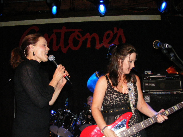 The Go-Go's at Antone's in Austin, TX. Belinda Carlisle (vocals) and Kathy Valentine (bass)